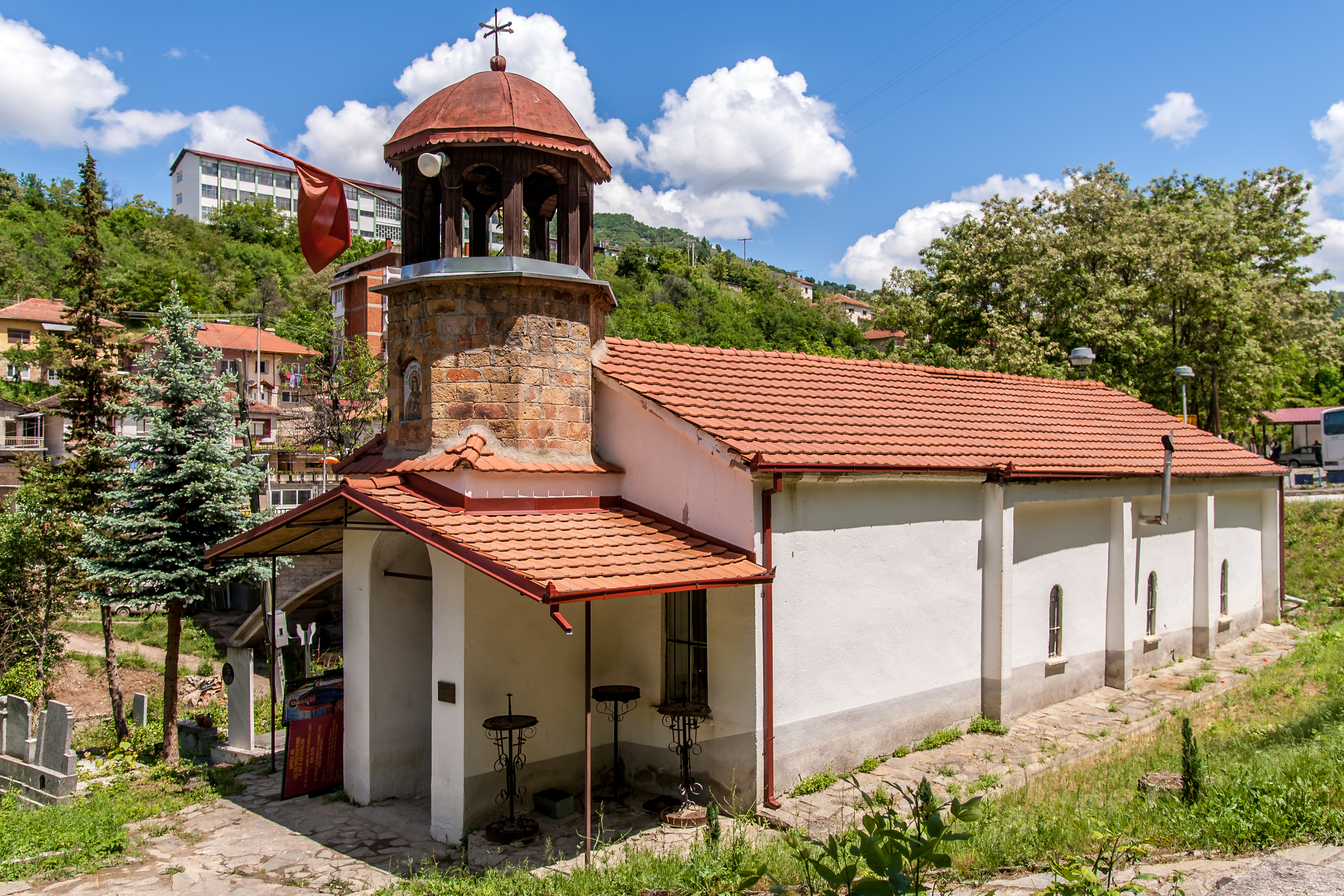 Side view of the St. George's Church in Kratovo